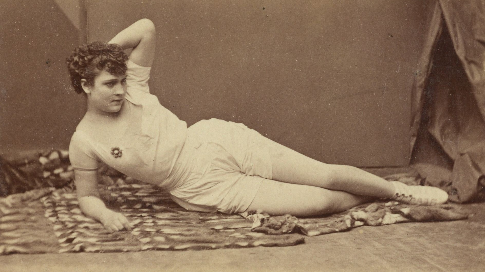 Cabinet card image of actor Adah Isaacs Menken (1835-1868), undated. Cropped from original scan. TCS 19, Harvard Theatre Collection, Houghton Library, Harvard University